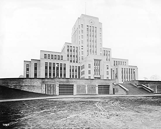 Vancouver City Hall about a month before opening. Archives' Item #City P19.1. Photographer's number 20016.